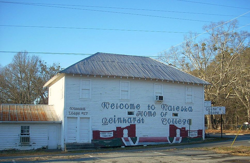 Reinhardt College mural in downtown Waleska. Current Owner: William Cline.